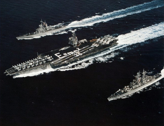 The U.S. Navy nuclear-powered Task Force One commemorating a world cruise on the 25th Anniversary of the 1964 cruise. Operation "Sea Orbit" included the nuclear-powered aircraft carrier USS Enterprise (CVN-65) (center), which took part in the first cruise, accompanied by the guided missile cruisers USS Truxtun (CGN-35) (right) and USS Arkansas (CGN-41) (left).